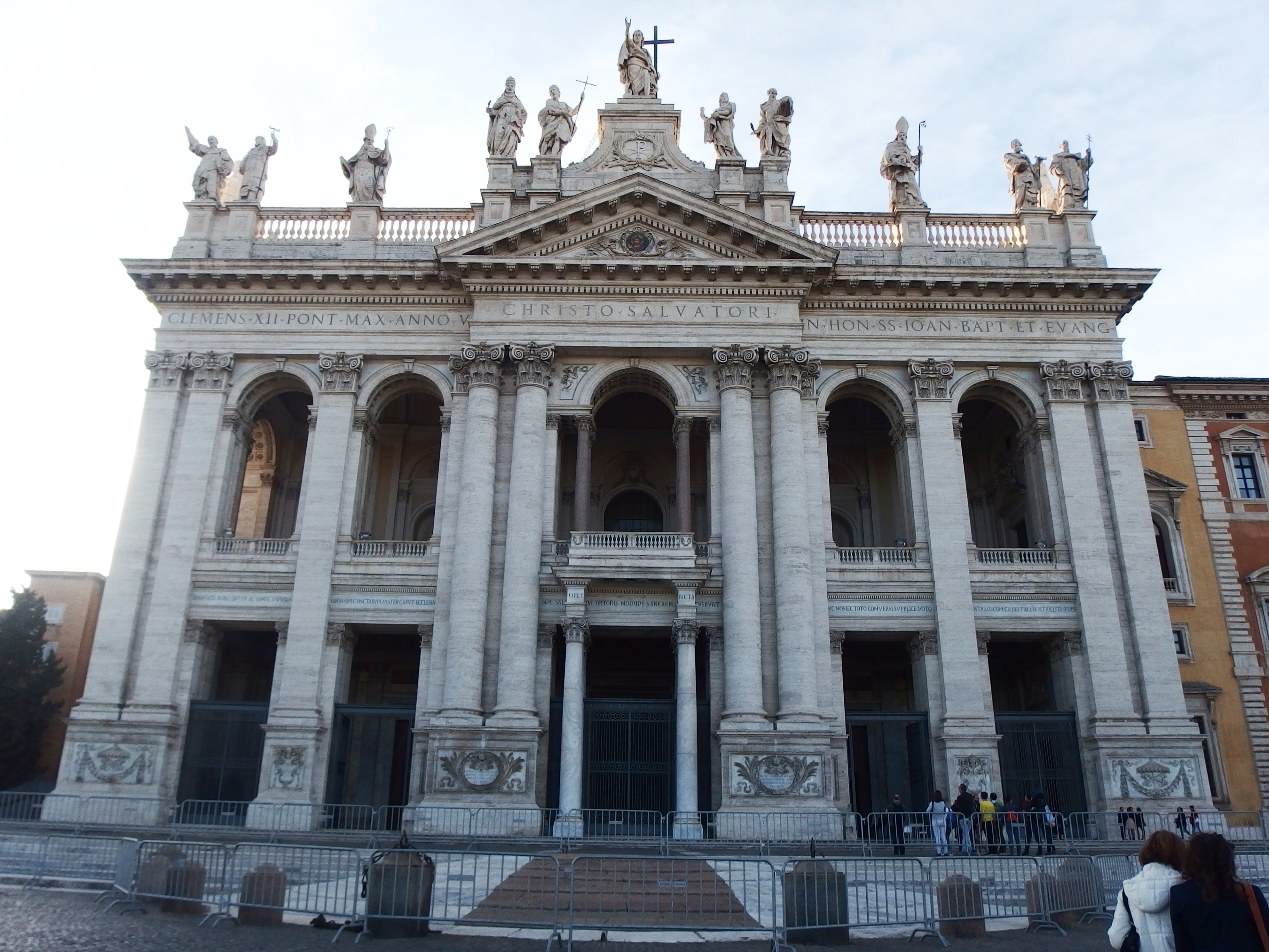 Rome, Italy. Basilica of St. John Lateran.